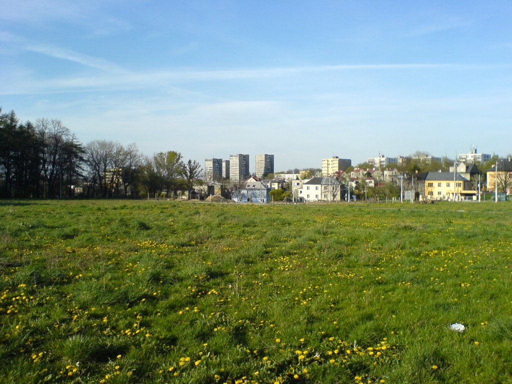 Houses, Mariánské Hory, Ostrava.